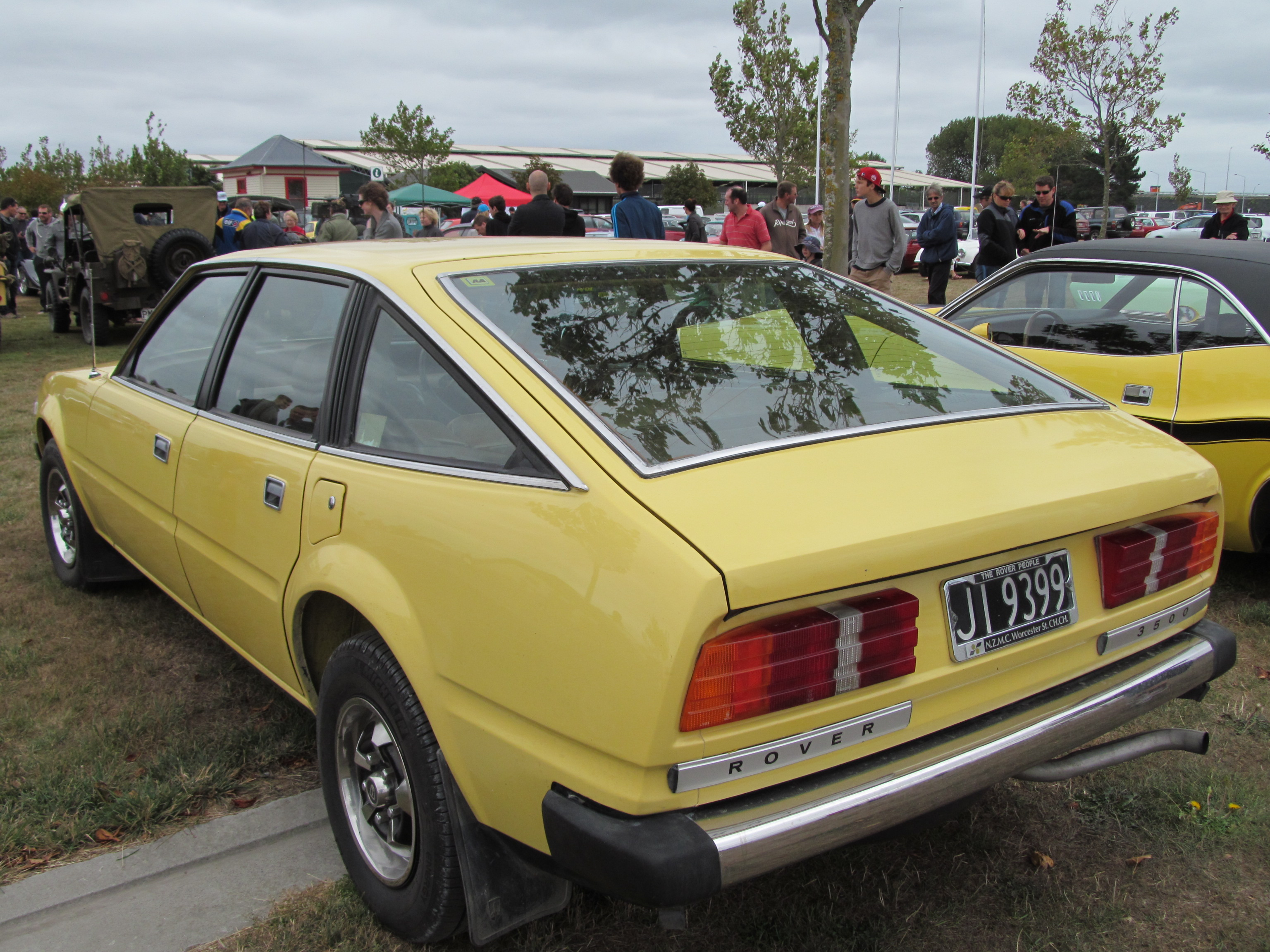 JI9399 I think these look best in original, unmodified form, so that's why this was one of my favourite cars at the show. You can't get much more British than this...